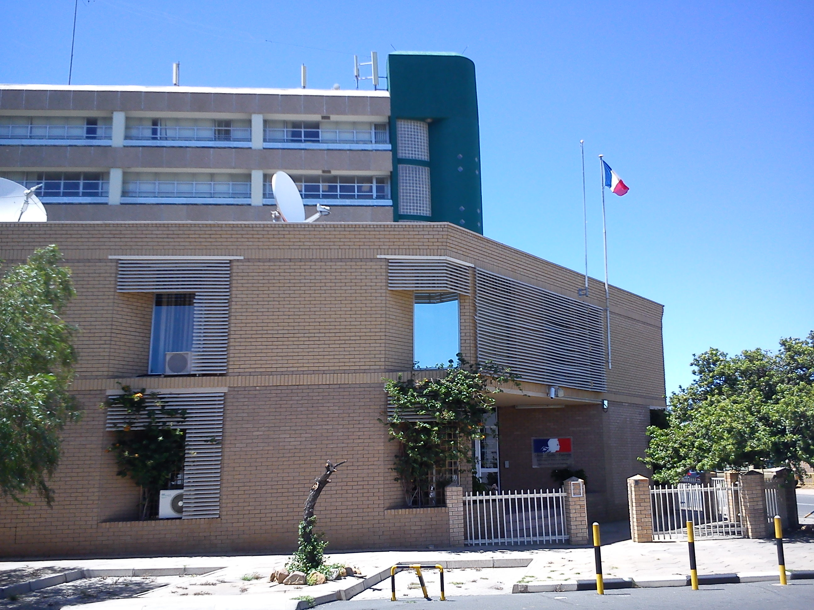 FR in NA